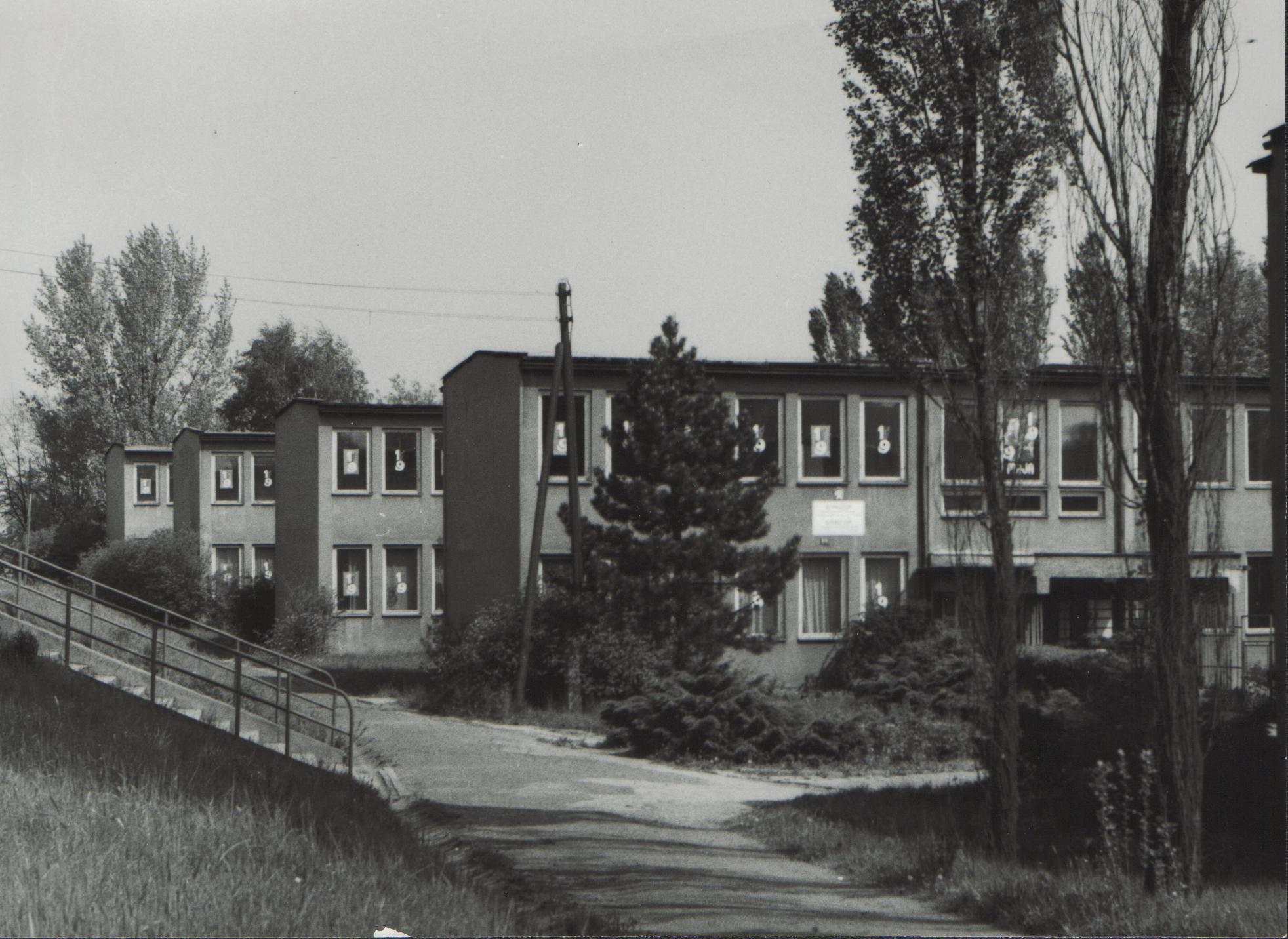 Polish secondary school in Orłowa Łazy